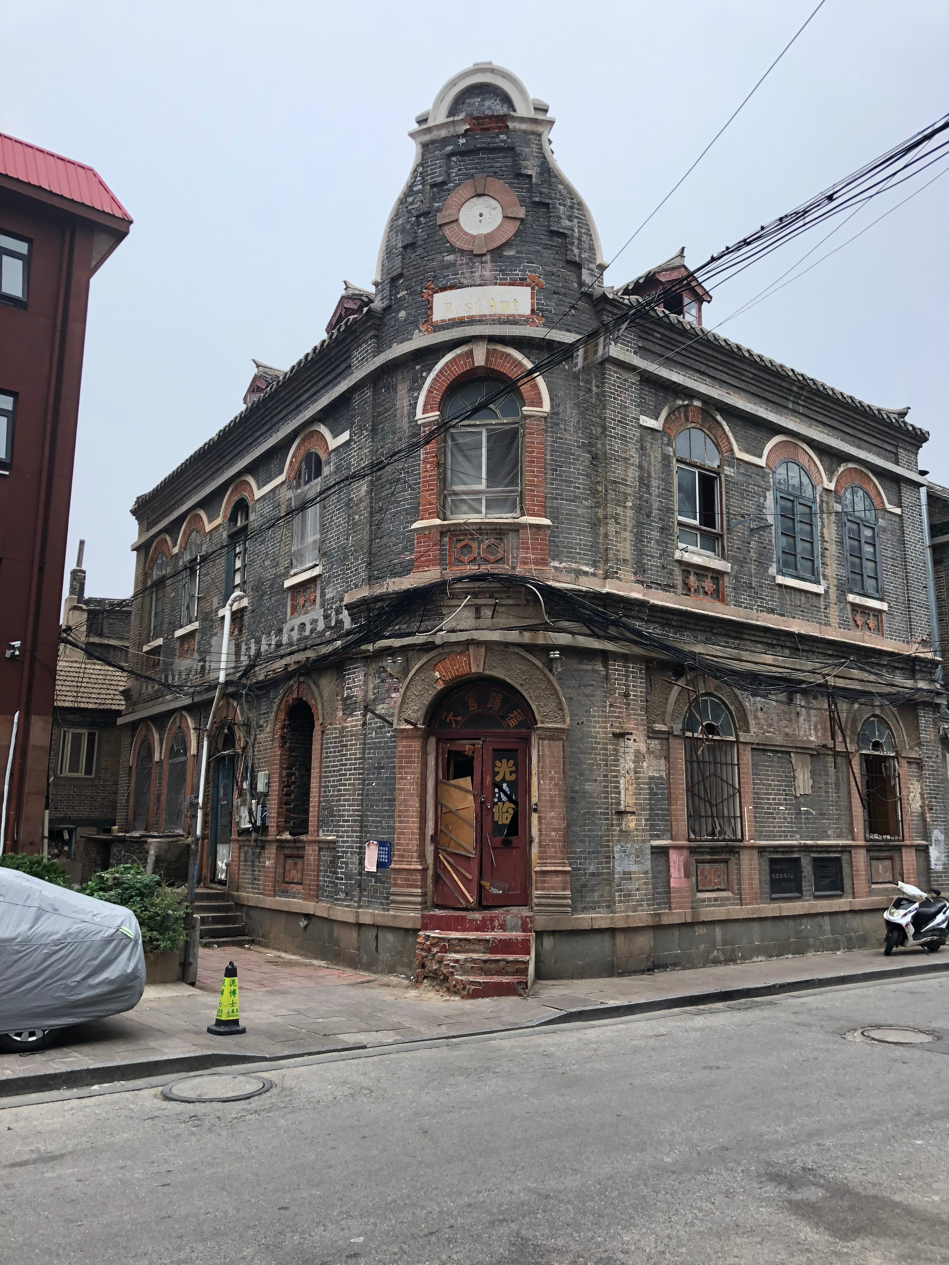 The original German post office in the old town of Yantai